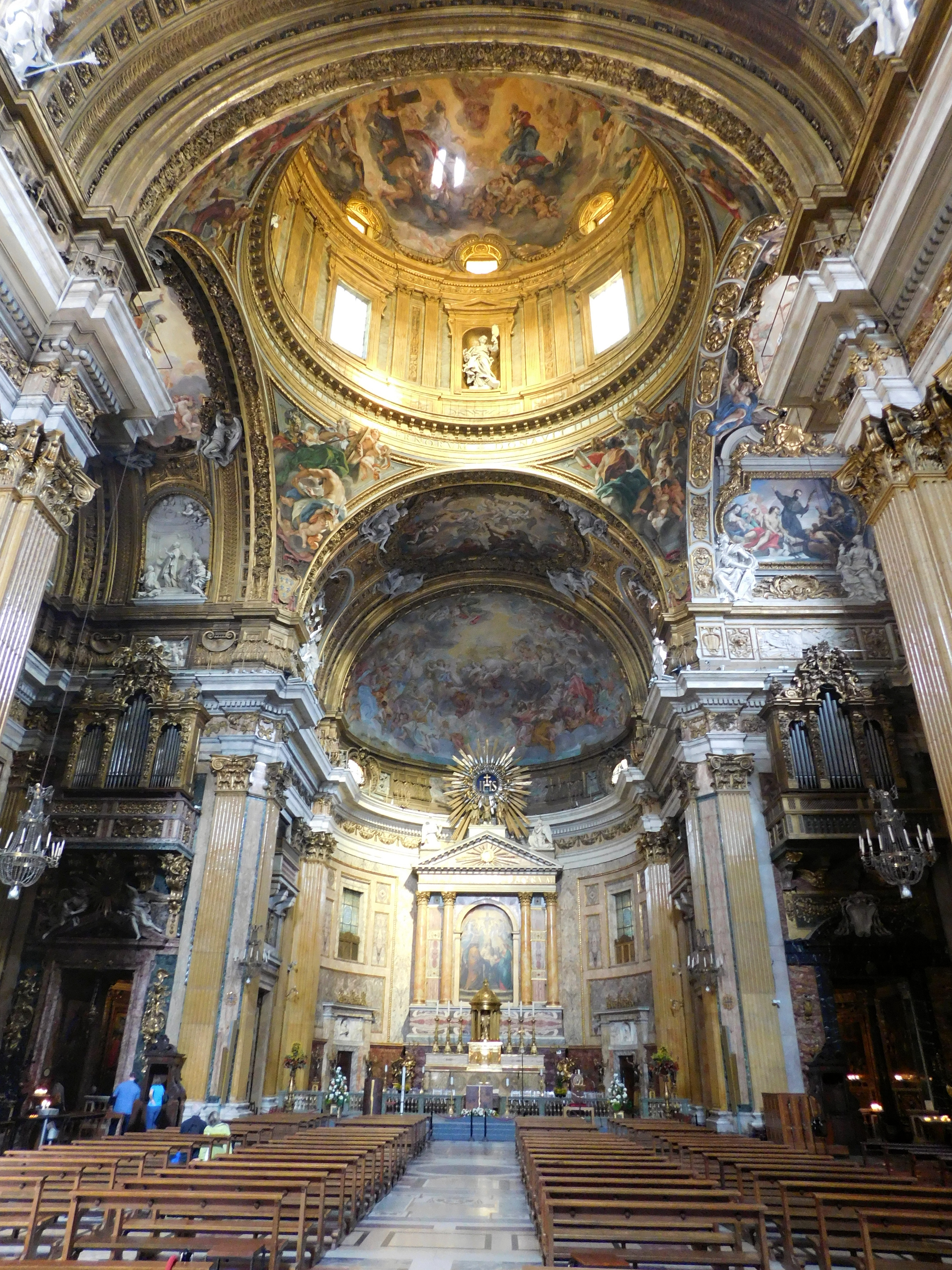 Rome, baroque Church of the Gesù